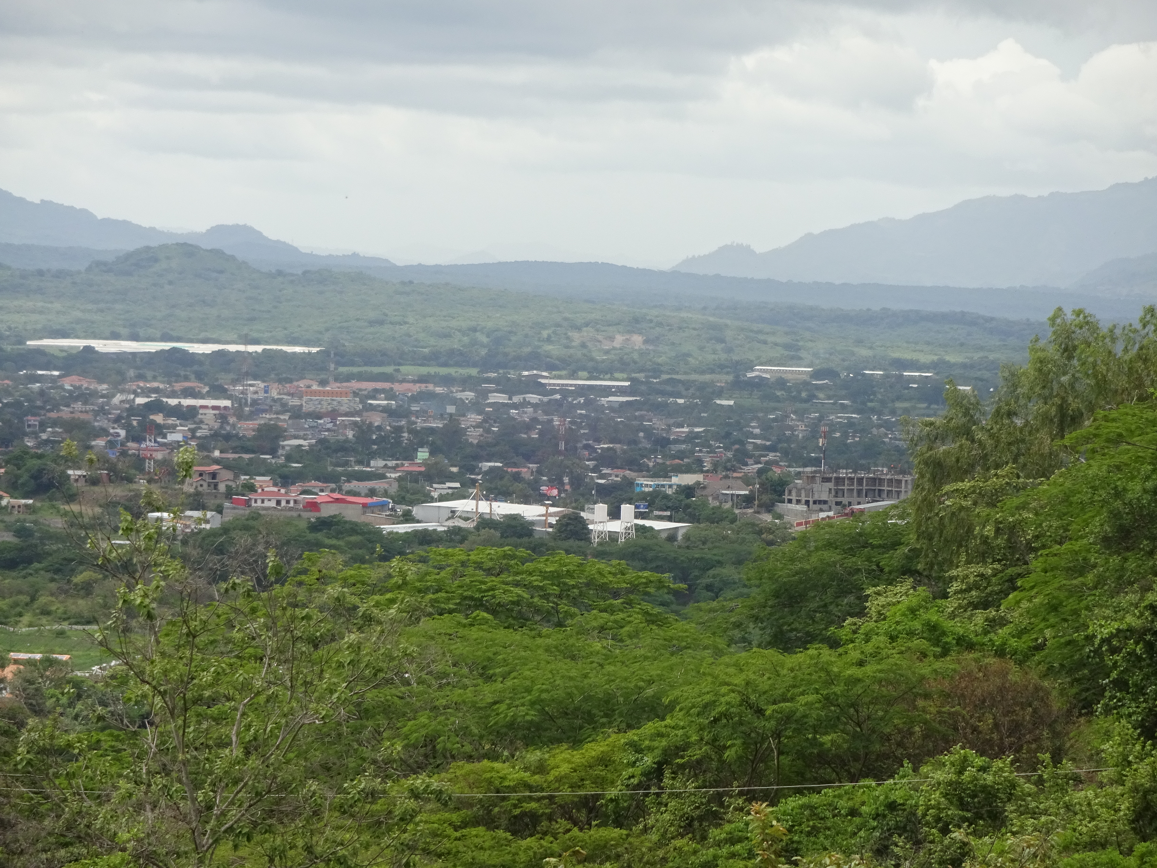 Esteli Nicaragua Skyline from Tisey